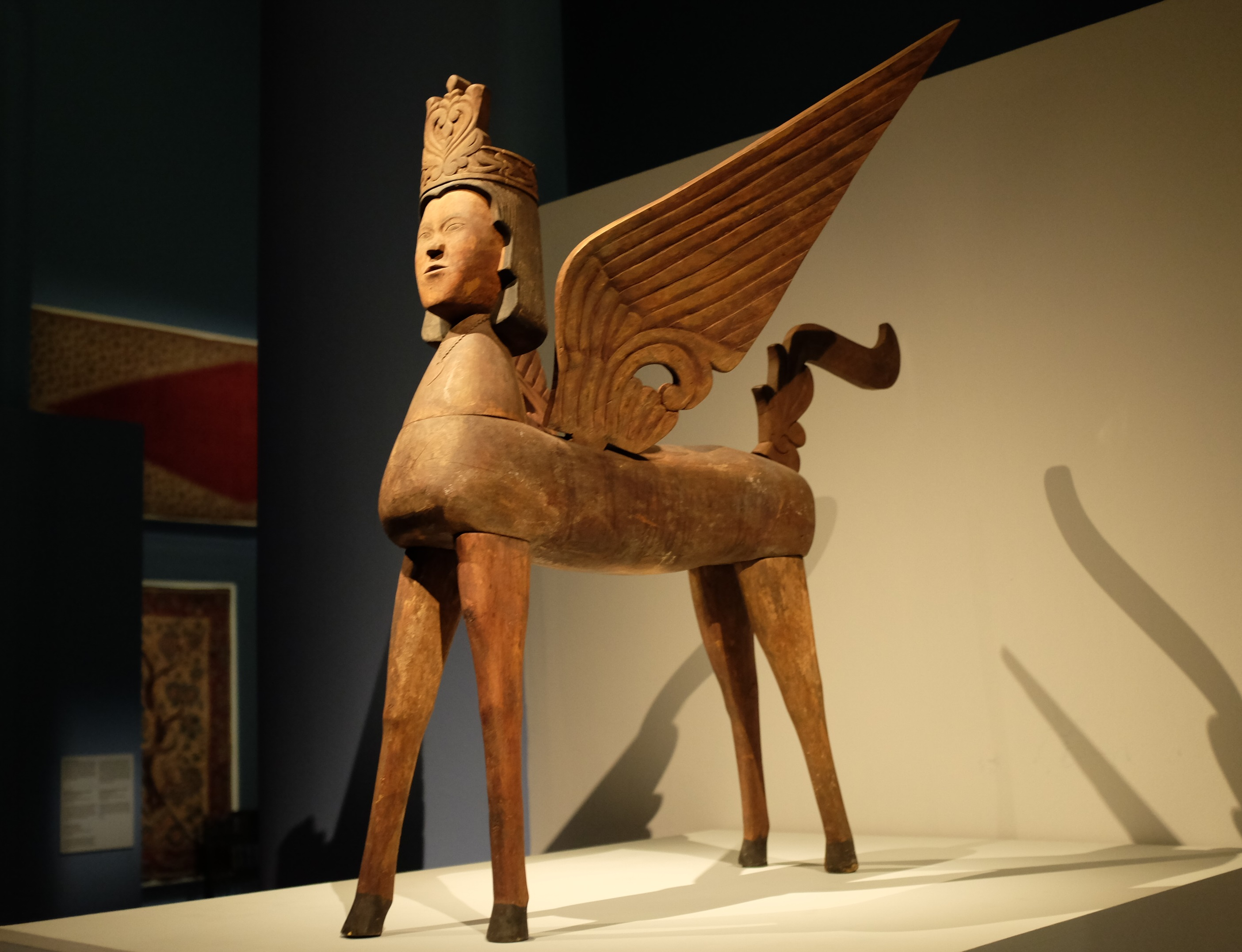 Sculpture of Buraq, a mythical beast of Islamic tradition. From Mindanao in Philippines and unique to that region.